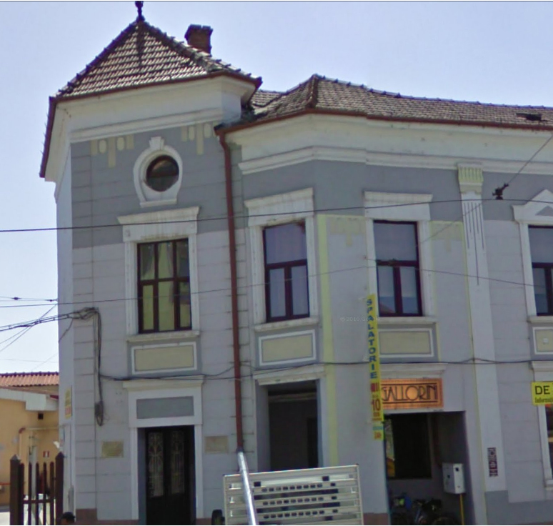 arada